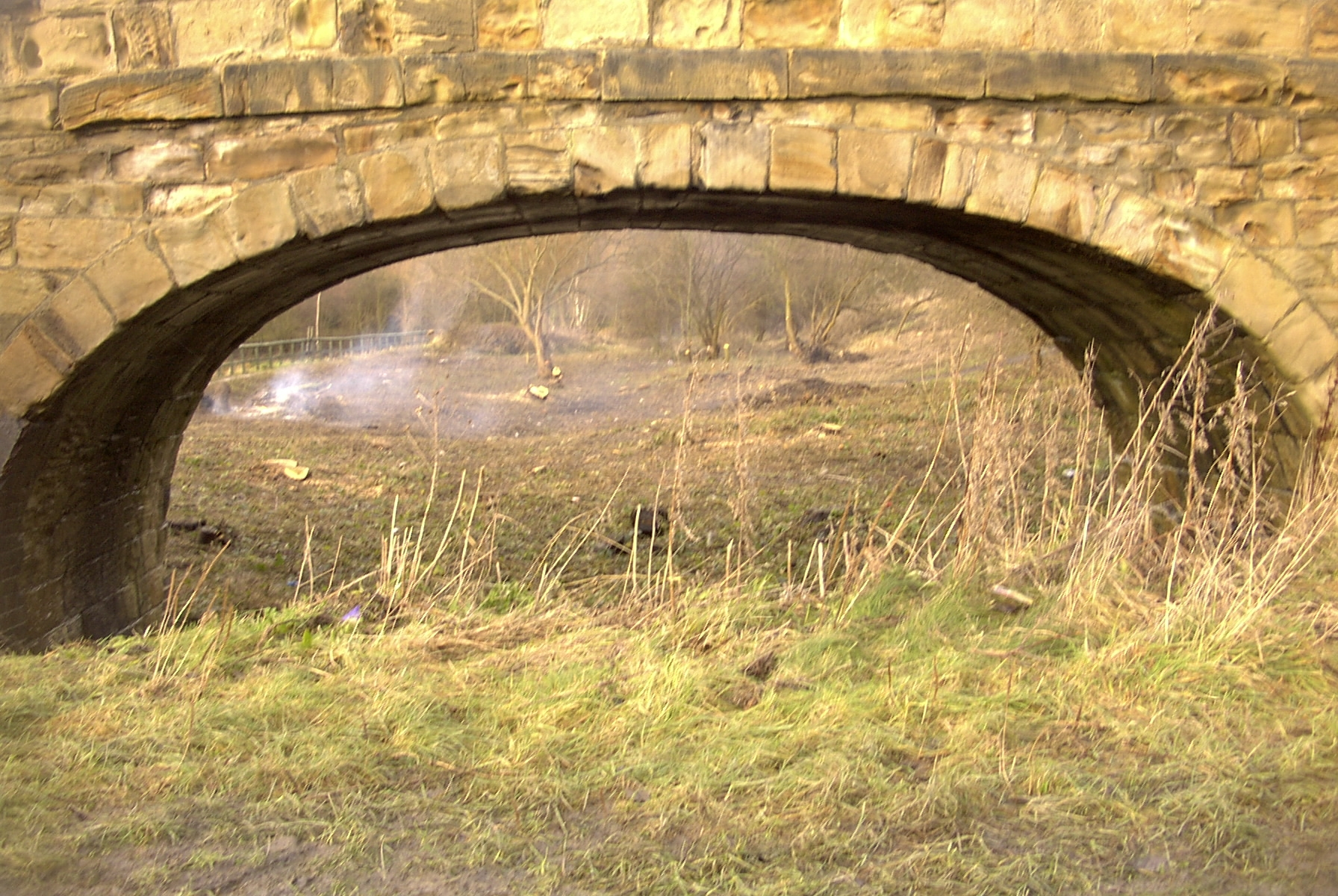 taken at the junction with the Pinxton arm